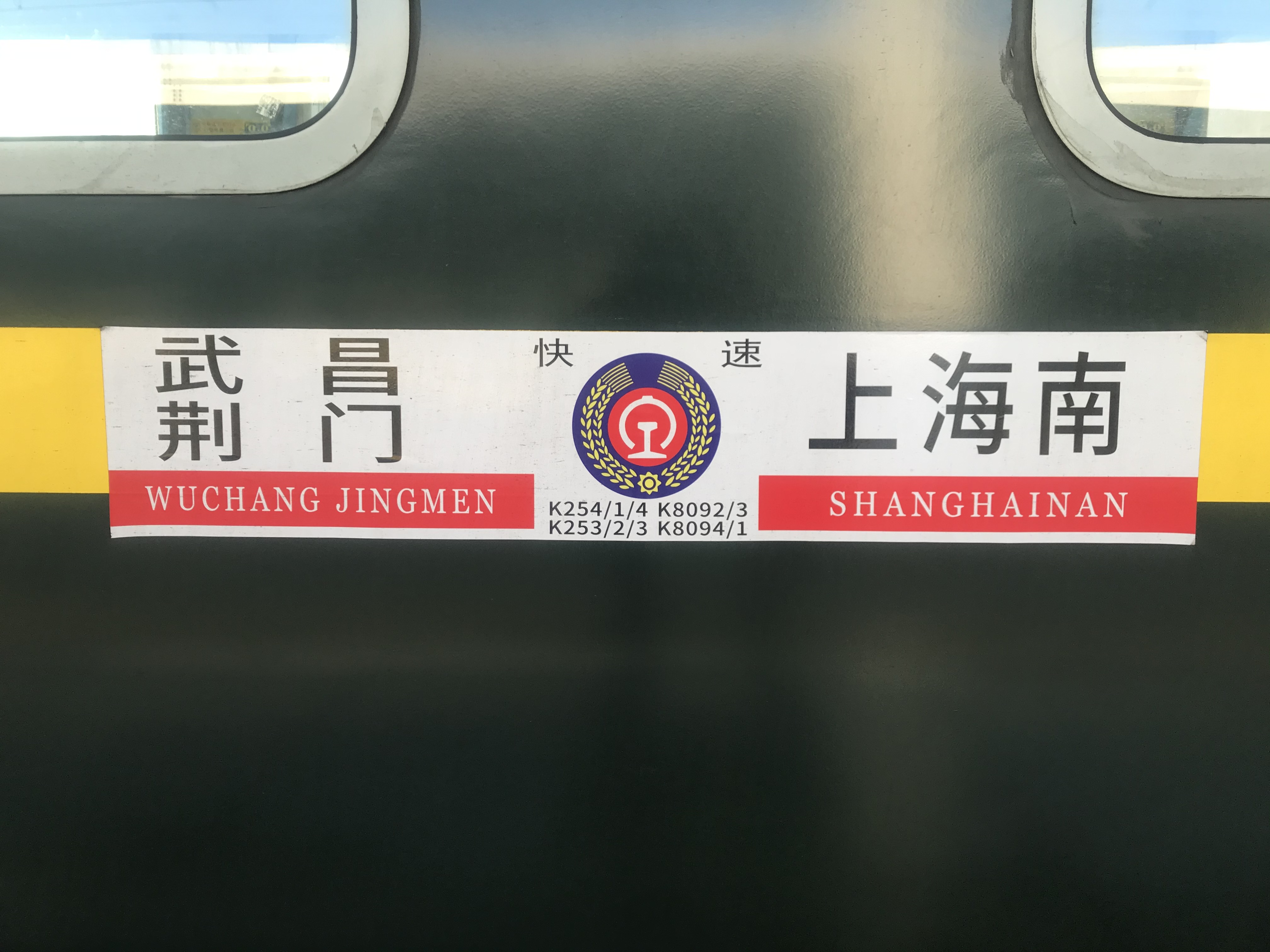 CR-Wuhan-style sans-serif font on the infoboard...